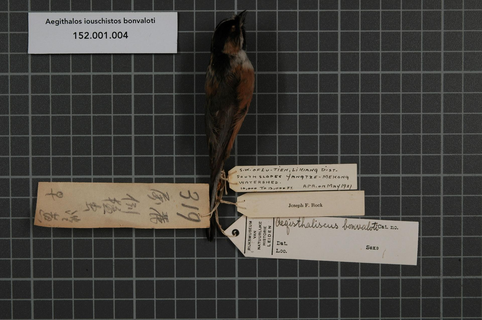 Aegithalos iouschistos bonvaloti (Oustalet, 1891)